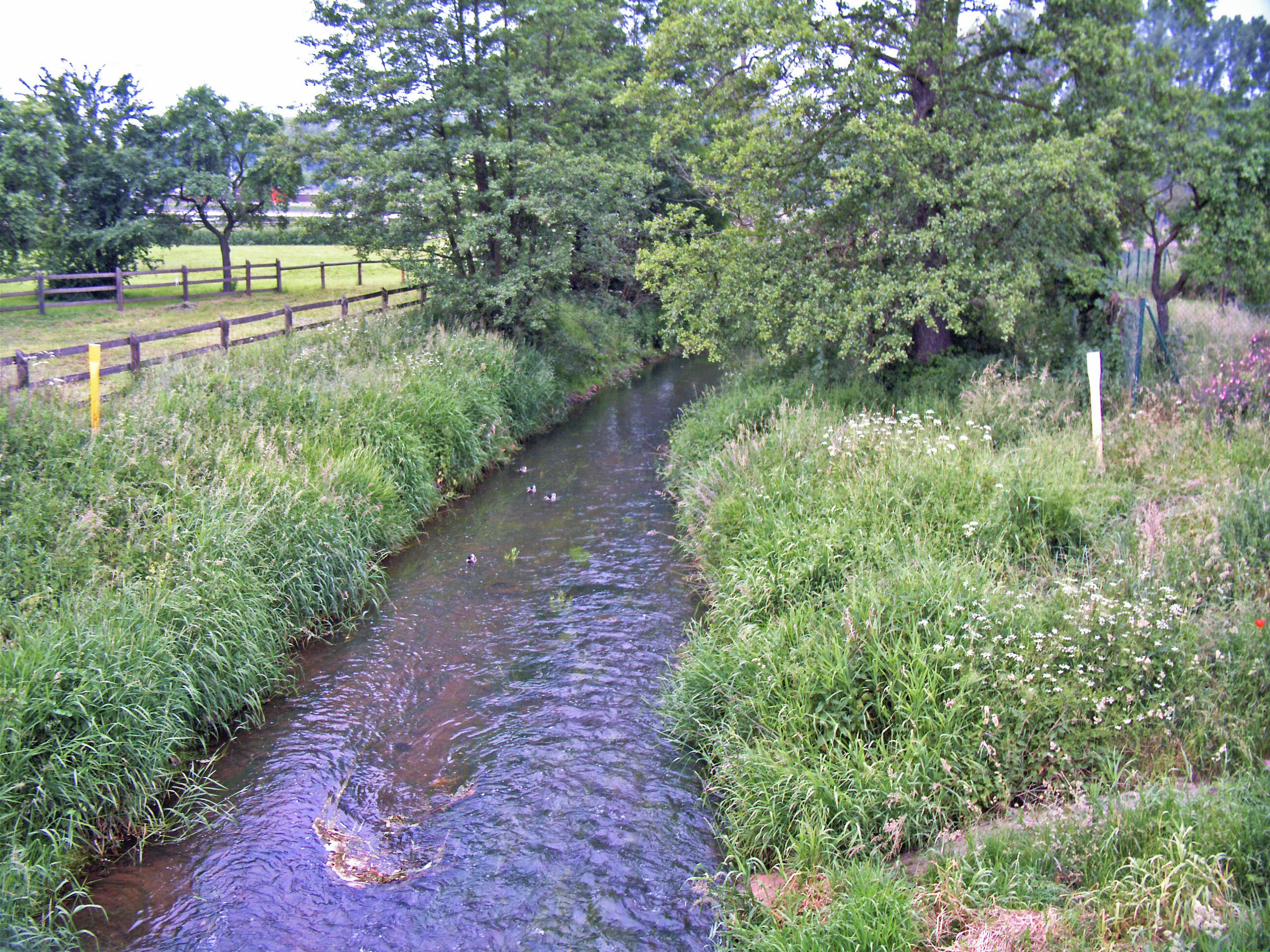 Parthe-river near Taucha(Leipzig),Saxony, Germany